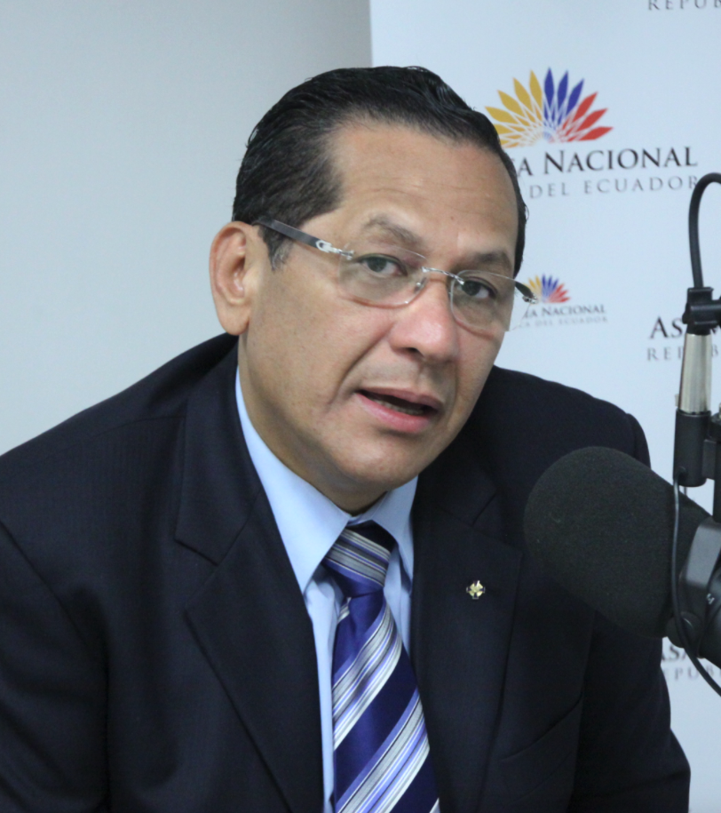 Luis Almeida. Cropped from File:Asambleísta Luis Almeida en entrevista en la Radio de la Asamblea Nacional (5902509304).jpg